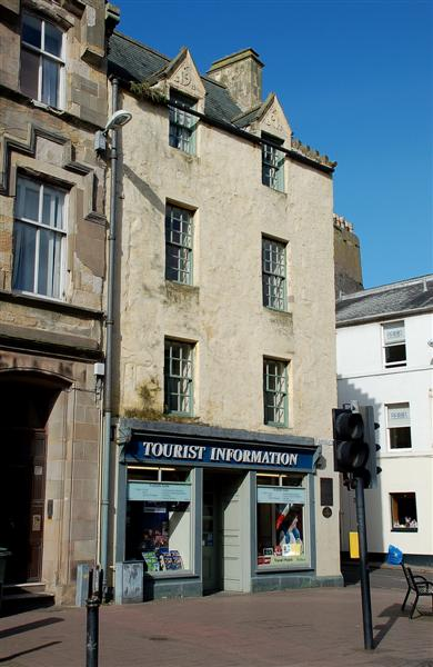 Lady Cathcart's House Located in The Sandgate, this is one of the oldest buildings in Ayr and is believed to date from the early 17th century. The house was restored by the Scottish Historic Buildings Trust in 1991 and the ground floor is now occupied by the tourist information office. John Loudon McAdam, the famous road-maker, was born here in 1756. (Source: "Ayrshire: Discovering A County", by Dane Love).